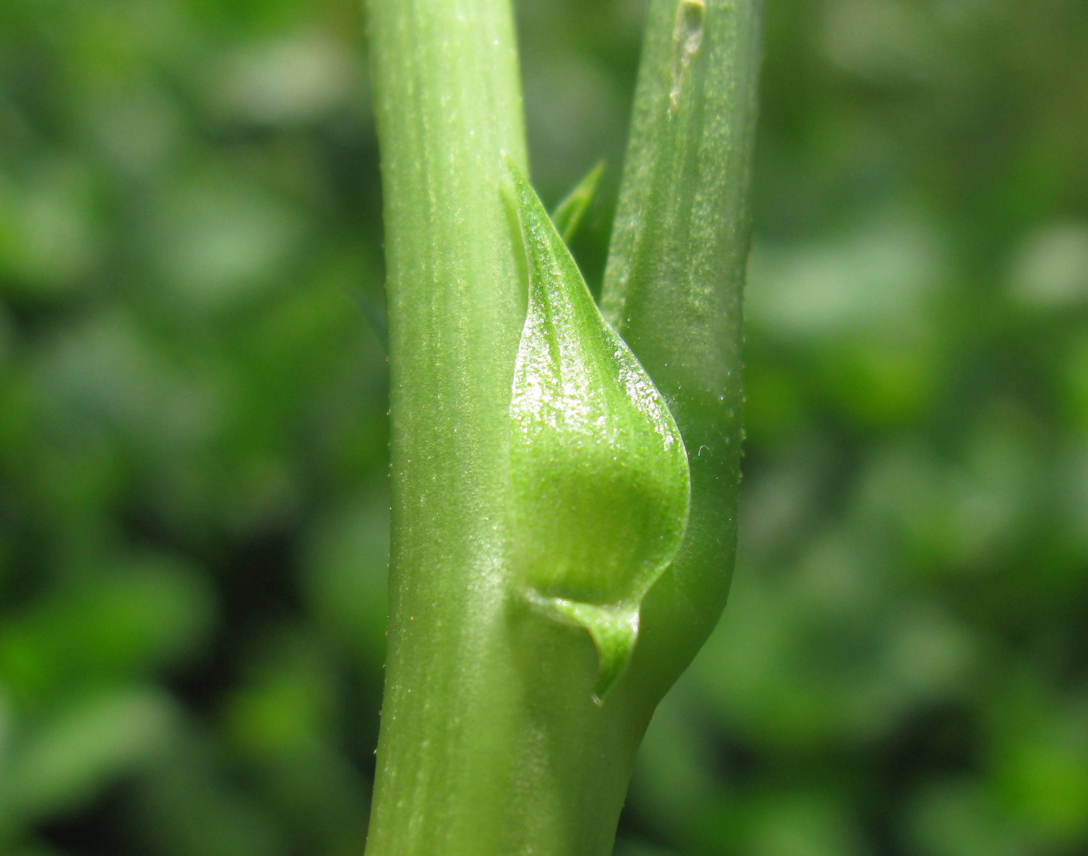 Stipules are lanceolate, about 1 cm andhave a narrow spur below the point of attachment.